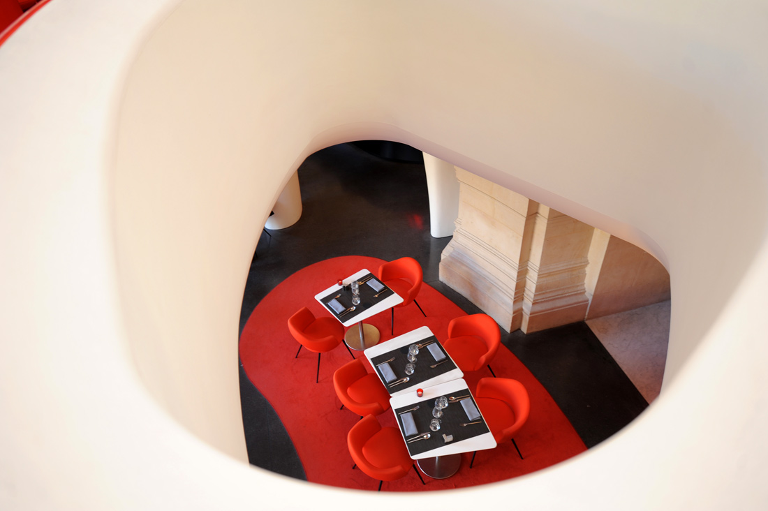 Interior of L'Opera restaurant, inside the Palais Garnier opera house in Paris.